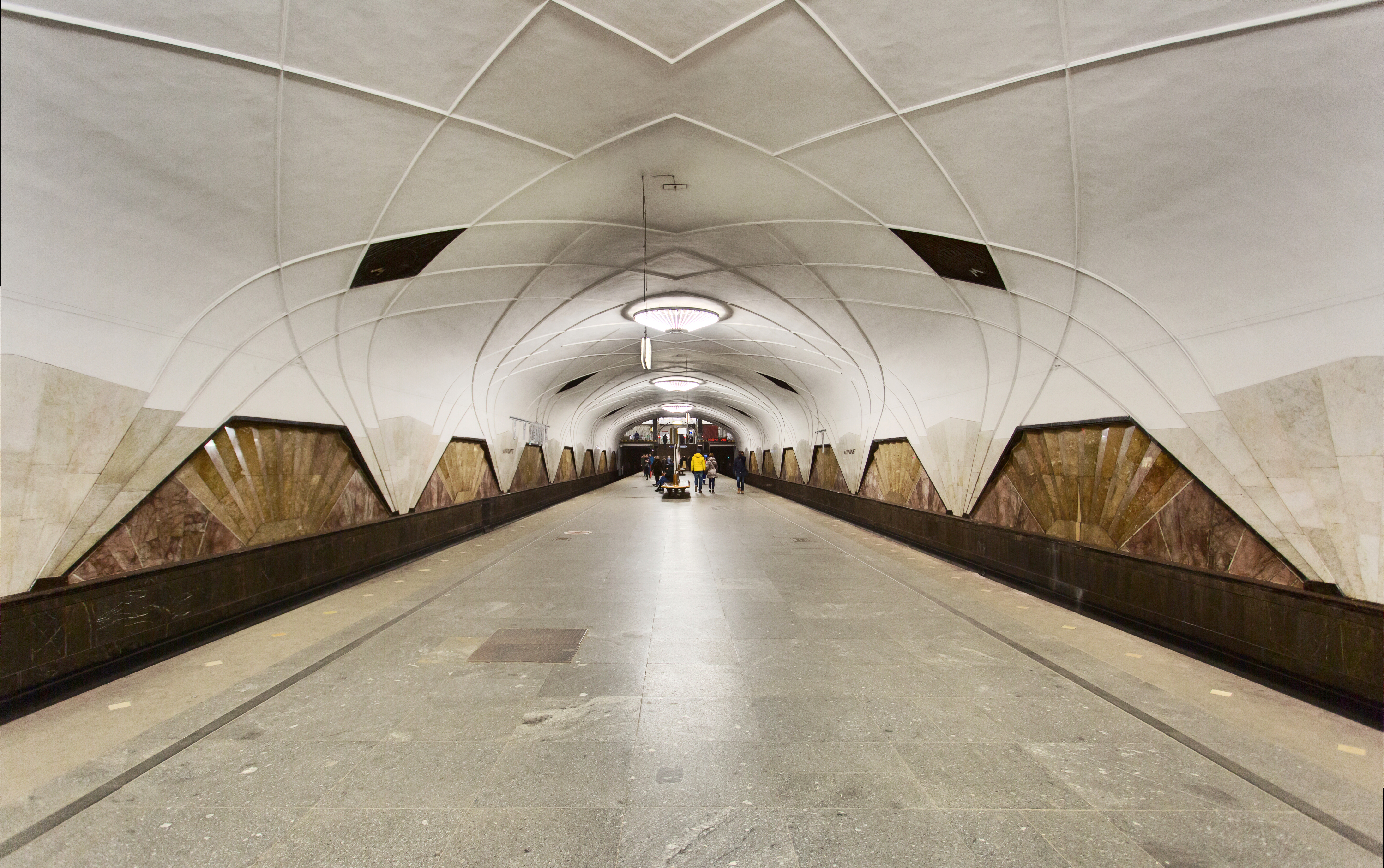 Metro station Aeroport, Moscow, Russia